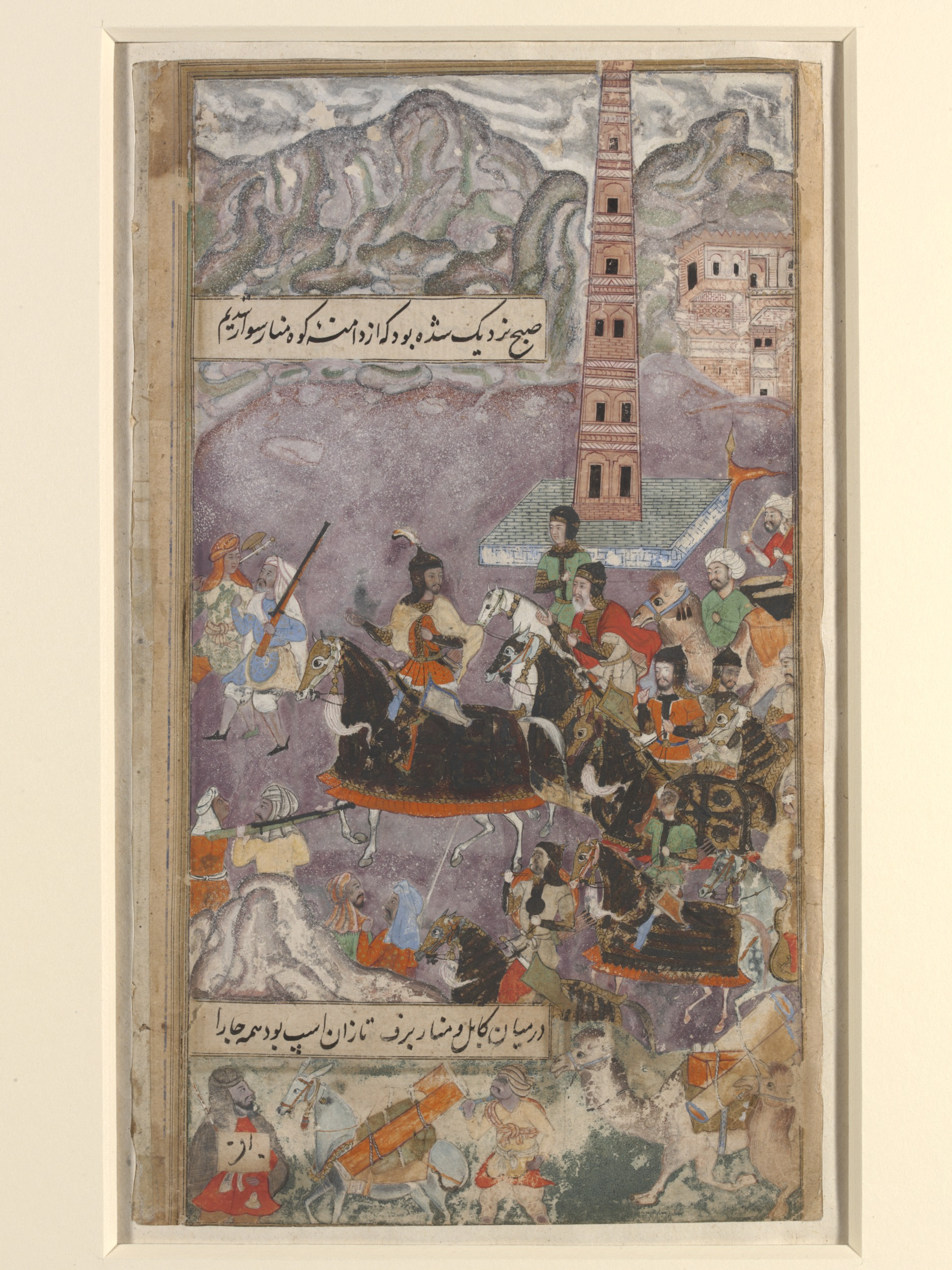 The "Memoirs of Babur" or Baburnama are the work of the great-great-great-grandson of Timur (Tamerlane), Zahiruddin Muhammad Babur (1483-1530). The Baburnama tells the tale of the prince's struggle first to assert and defend his claim to the throne of Samarkand and the region of the Fergana Valley. After being driven out of Samarkand in 1501 by the Uzbek Shaibanids, he ultimately sought greener pastures, first in Kabul and then in northern India, where his descendants were the Moghul (Mughal) dynasty ruling in Delhi until 1858. The miniatures are from an illustrated copy of the Baburnama prepared for the author's grandson, the Mughal Emperor Akbar. It is worth remembering that the miniatures reflect the culture of the court at Delhi; hence, for example, the architecture of Central Asian cities resembles the architecture of Mughal India. Nonetheless, these illustrations are important as evidence of the tradition of exquisite miniature painting which developed at the court of Timur and his successors. Timurid miniatures are among the greatest artistic achievements of the Islamic world in the fifteenth and sixteenth centuries. Illustrations of Mughals from the Baburnama